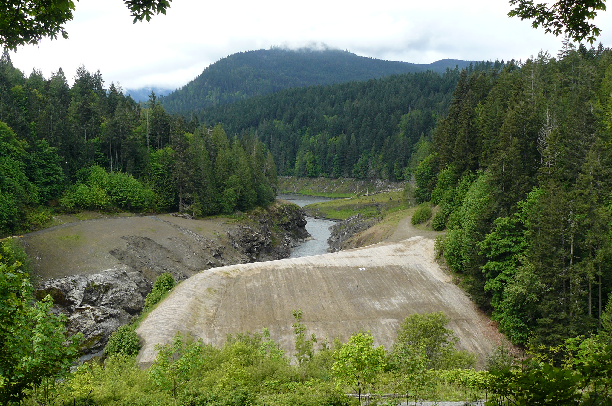 Elwha Dam removal finished. The dam is still barren, but will be covered with trees etc. The Elwha River flows at the left of the dam. Seen in May 2013